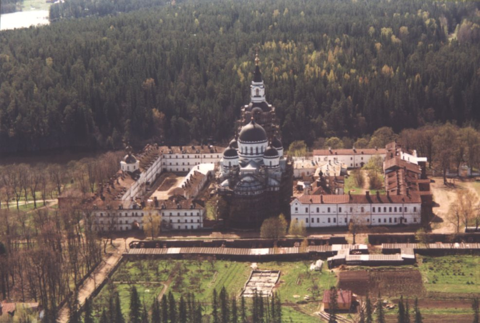 Valaam (Valamo) monastery, main church. In Valamo island, former Finnish Karelia, Russia.